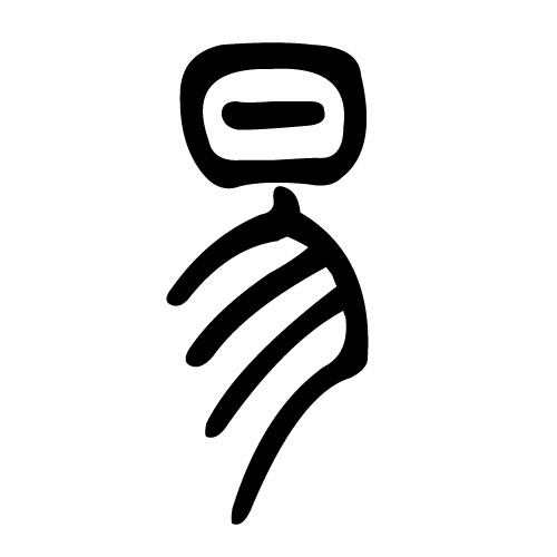 Chinese character 易 (U+6613) for change used for Zhou Yi or I Ching